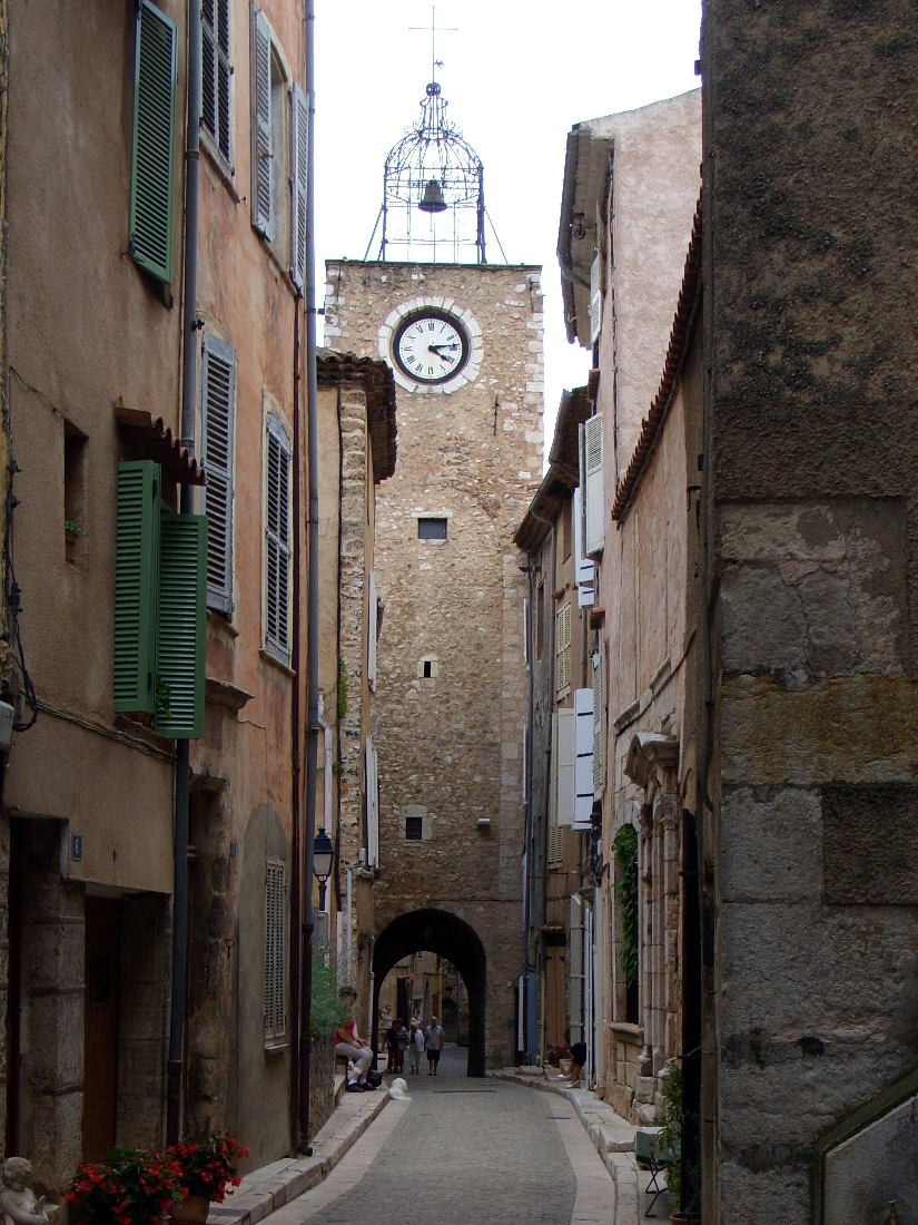 Rue de l'horloge, Aups. The clock was built in the XVIth century. The north-west side of the clock is visible. .